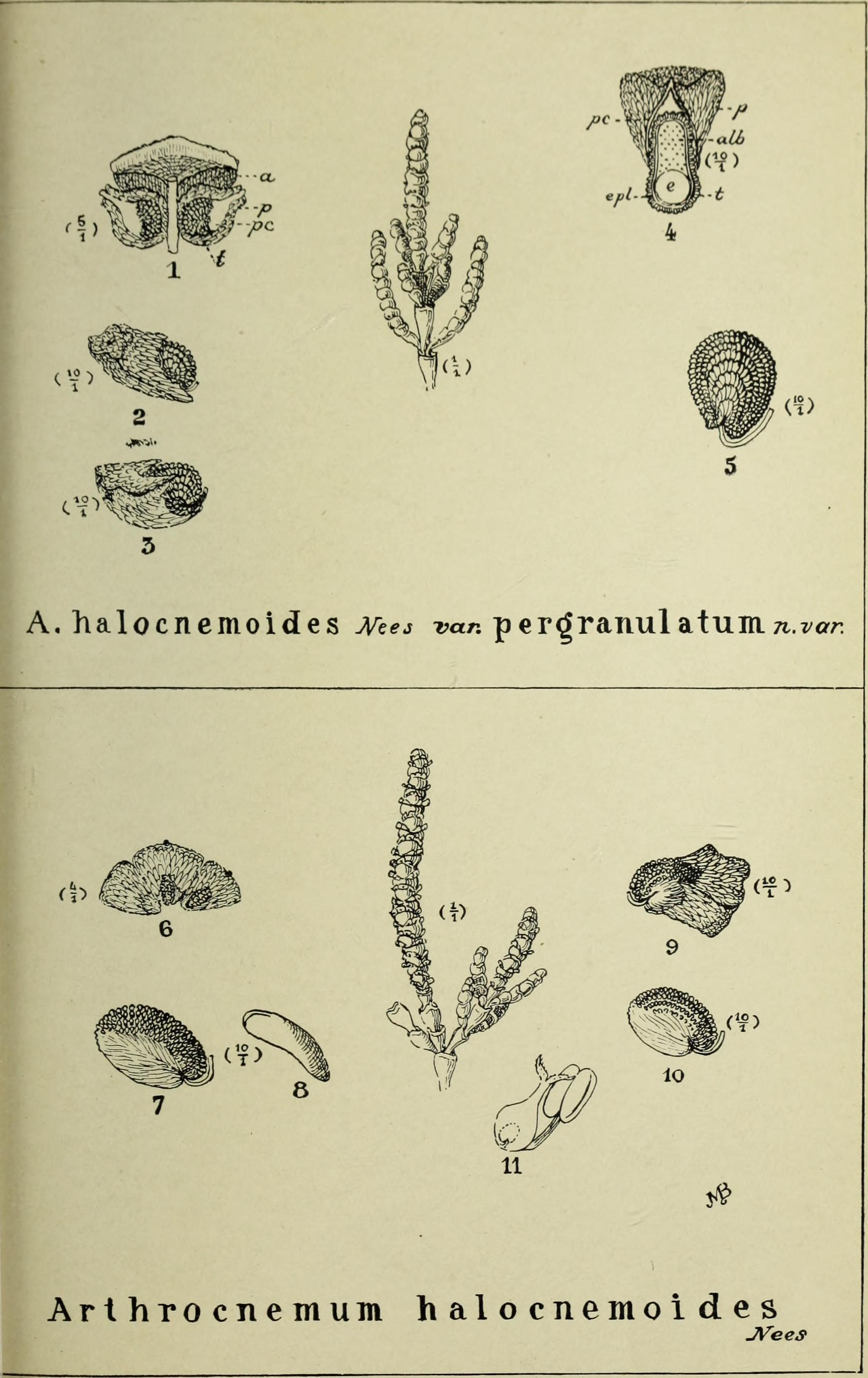 Title: Transactions and proceedings and report of the Philosophical Society of Adelaide, South Australia Year: 1878 (1870s) Authors: Philosophical Society of Adelaide, South Australia Subjects: Philosophical Society of Adelaide, South Australia Science Publisher: Adelaide : The Society Text Appearing Before Image: i., 140 (1859);Salicornia cinerea, F. v. M. Fragm., vi., 251 (1868); Benth.Fl. Aust., v., 203 (1870). N. Territory. Sturt Creek (the type; collected by F.v. Mueller, when accompanying A. C. Gregorys Expeditionin 1856). Sturt Creek lies principally in Western Australia,so that it is very probable the specimen was gathered there,but Mueller does not quote that State for the species in his2nd Census. Darwin (M. Holtze, 1883, from National Herb,of Victoria). Queensland. Townsville (Rev. N. Michael, June, 1918) ;Archer River (Rev. N. Hay; both in Queensland Herb.). DESCRIPTION OF PLATES. Plate XXXIII. Arthrocnemum halocnemoides, Nees. The central figureshows fruiting spikes. 6, 3 fruiting perianths, seen from above,2 containing seeds (Finke River). 7, seed (Drummonds WesternAustralian specimen). 8, embryo. 9, perianth with seed pro-truding (J. McDouall Stuarts specimen). 10, seed (the same).11, pistil and stamen (Birkenhead). Prnns. and Proc. Roy. Soc. S. Austr. Vol. XLIII., Plate XXXIII. Text Appearing After Image: HUSSEY & GILL1NGHAM LIMITED, PR!NTERS 4 PUBLISHERS ADELAIDE, SO. A JS. (Vans, and Proc. Roy. Soc. S. Austr Vol. XLIII., Plate XXXIV